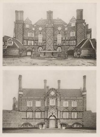 Photographs of Kelling Place (now called Home Place, Kelling), Norfolk, England